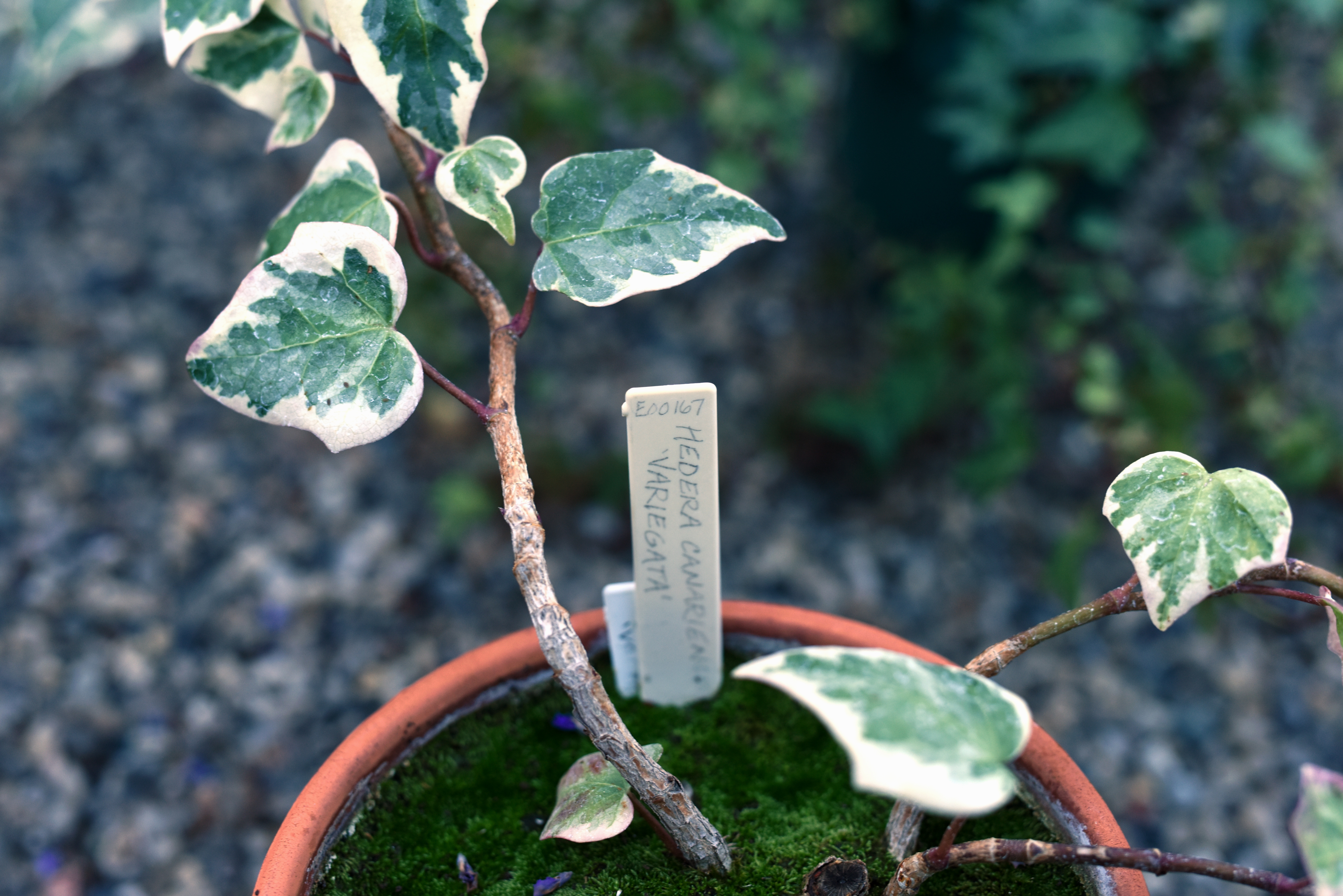 Mount Holyoke Greenhouse.